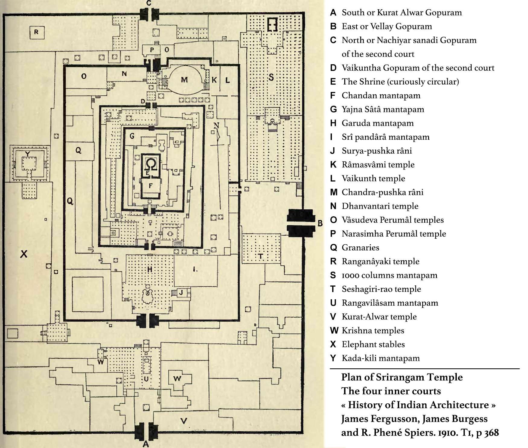 Plan of Srirangam temple : Sri Ranganatha Swamy, Srirangam. Tiruchirapalli. From James Fergusson, James Burgess and R. Phené Spiers, « History of Indian and Eastern architecture », 1910, T 1, p. 368. Text added and composed with Photoshop.